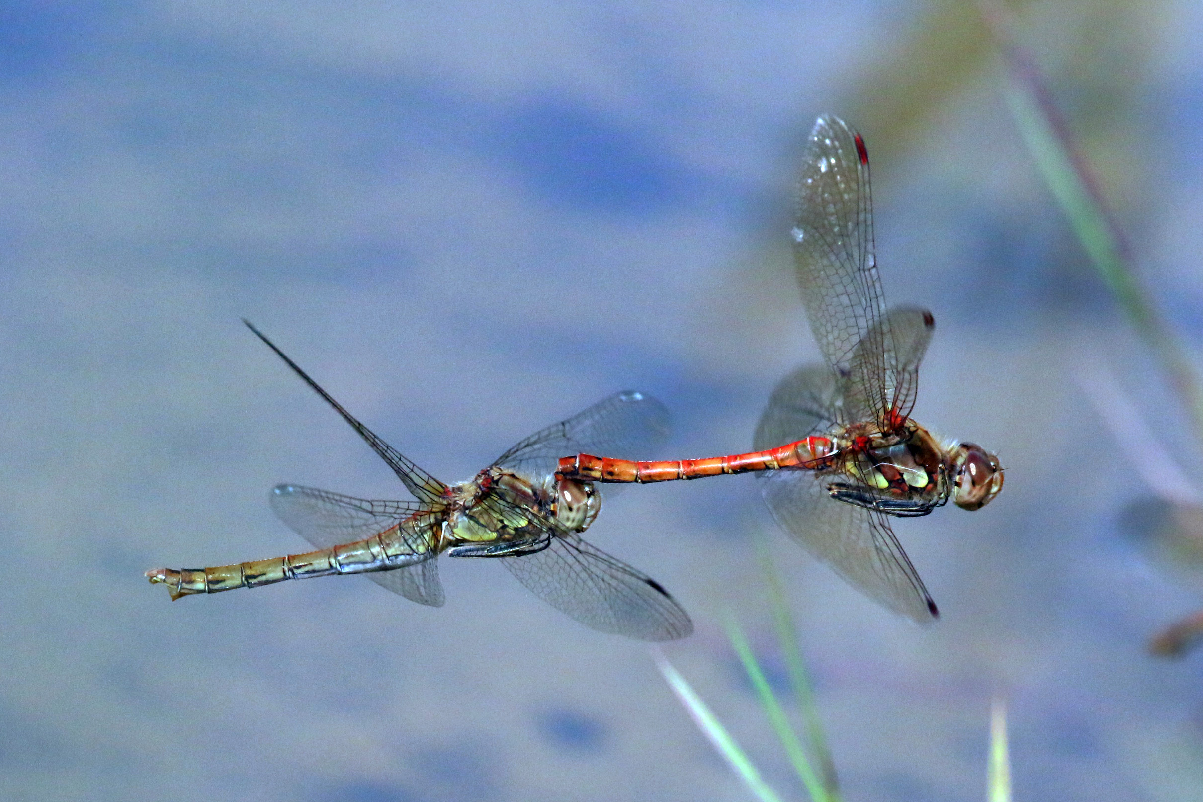 Common darter dragonflies (Sympetrum striolatum) in flight in tandem, River Thames, Farmoor, Oxfordshire